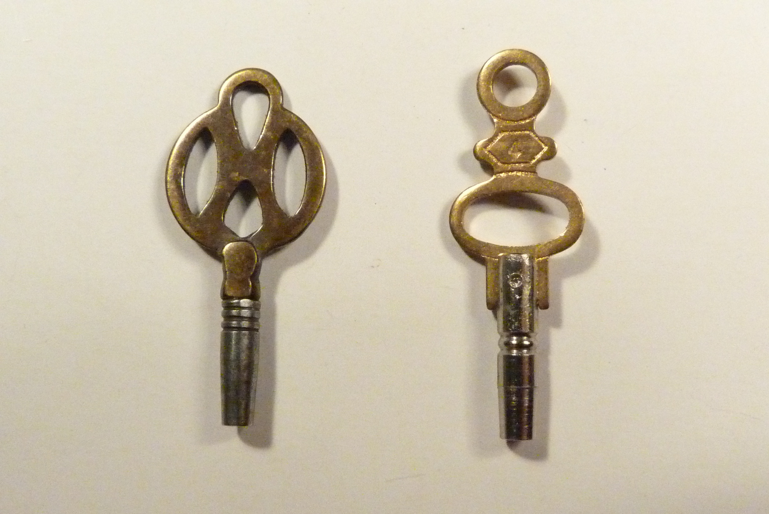 Pocket watch keys (left side - about 1900, right side - about 2000)